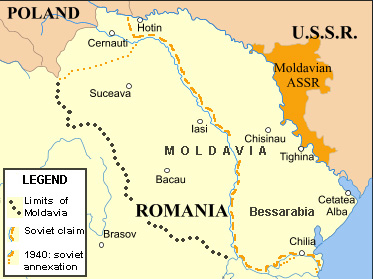 Historic map of Moldova & Romania, 1924-1940